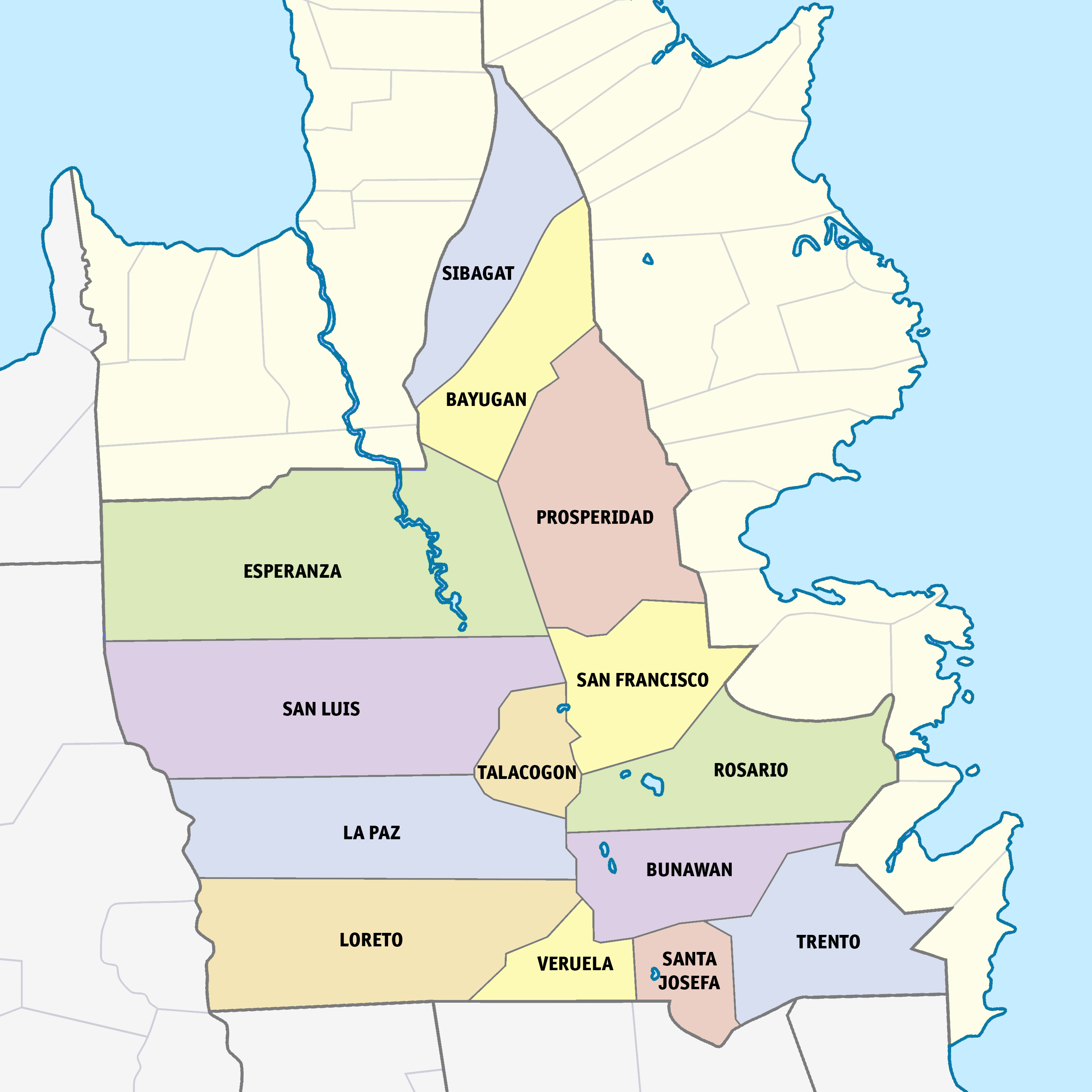 Political map of Agusan del Sur